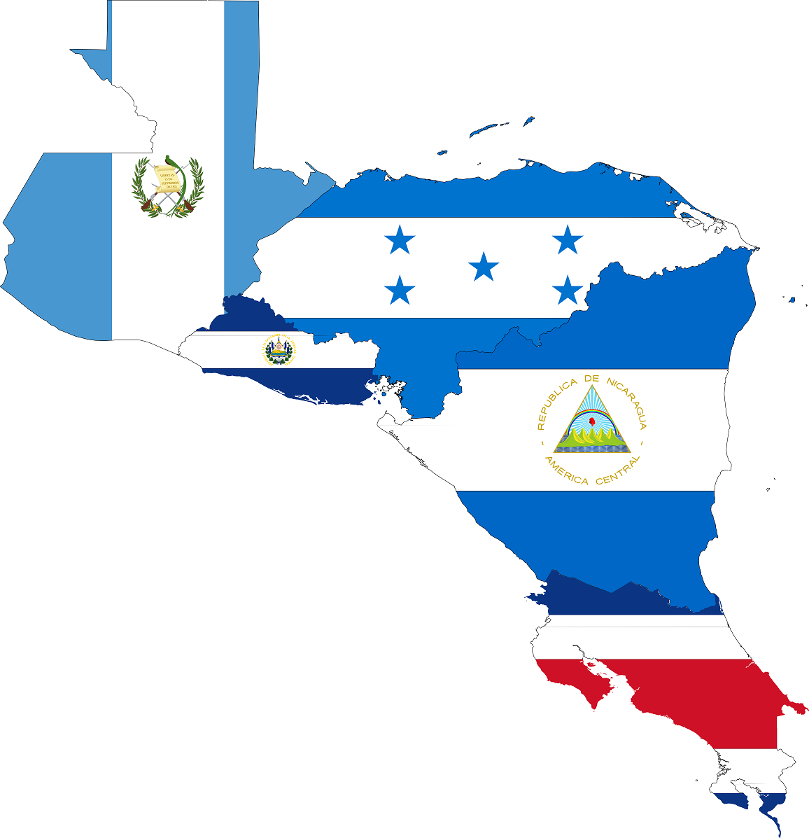 Description: former Federation of Central American States, with overlay of national flags Source: own work Date: November 2005 Author: --Immanuel Giel 11:10, 15 November 2005 (UTC) Other versions: none Zentralamerikanische Konföderation Confederación de Centroamérica